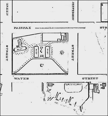 Image is the work of the U.S. Government and was published in the United States before 1923. It is a Civil War-era diagram of Battery Rodgers, formerly located in Alexandria, Virginia.